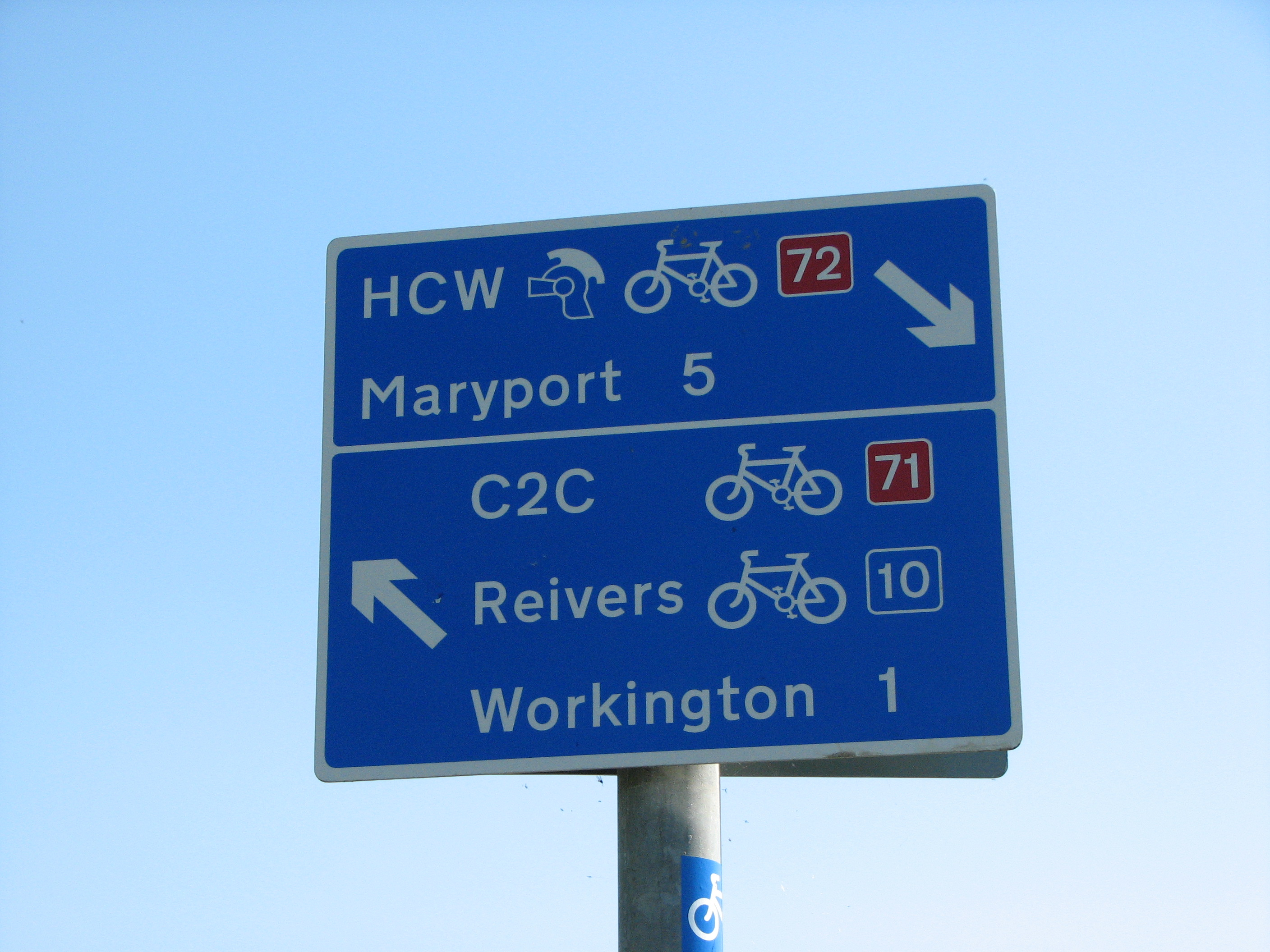 Routemarkers of the National Cycle Network